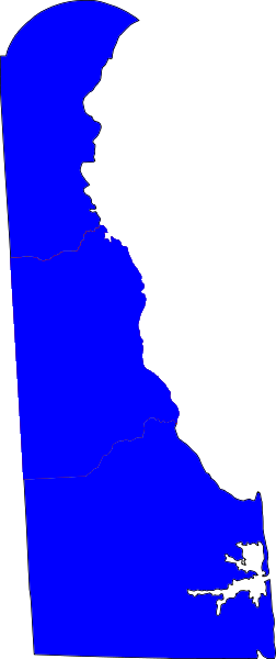 Results of the Delaware senatorial election, 2008 by county.